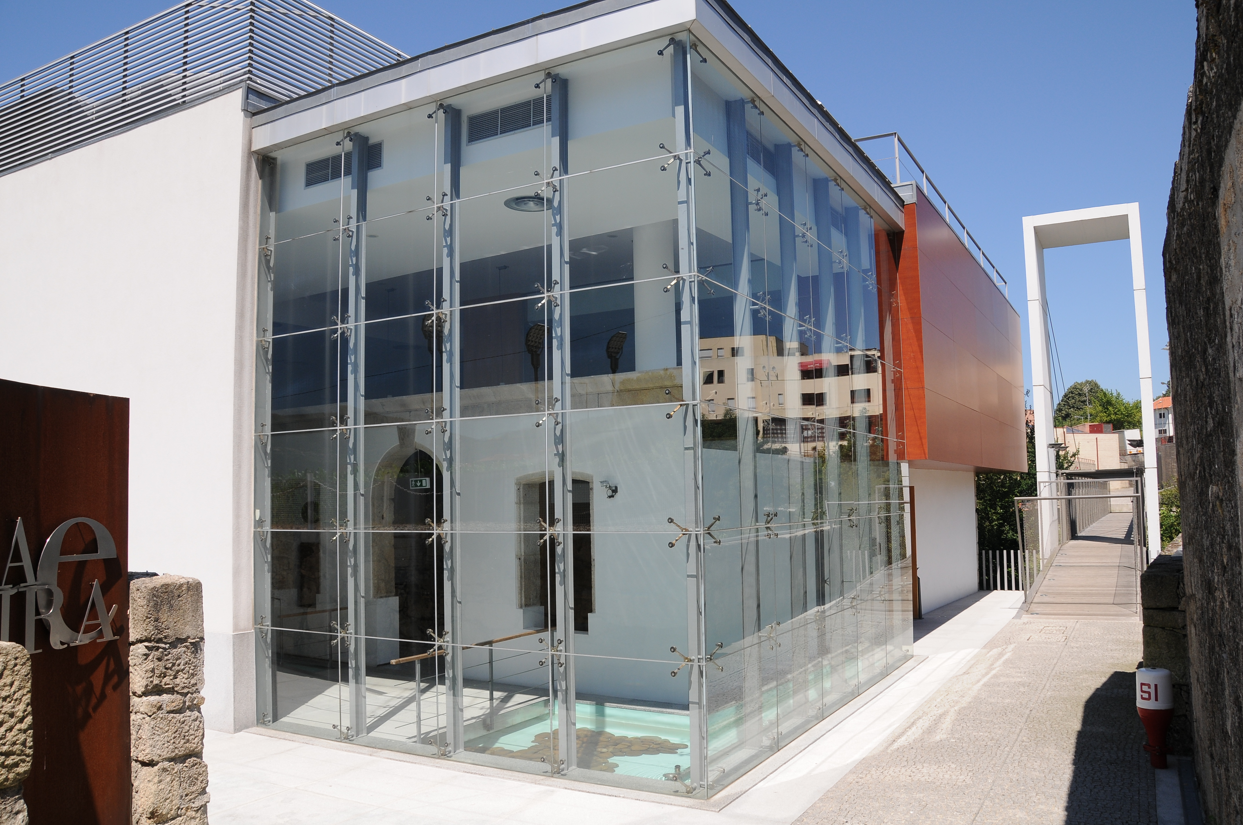 Museum of the border (Espaço Memória e Fronteira) in Melgaço, Portugal.